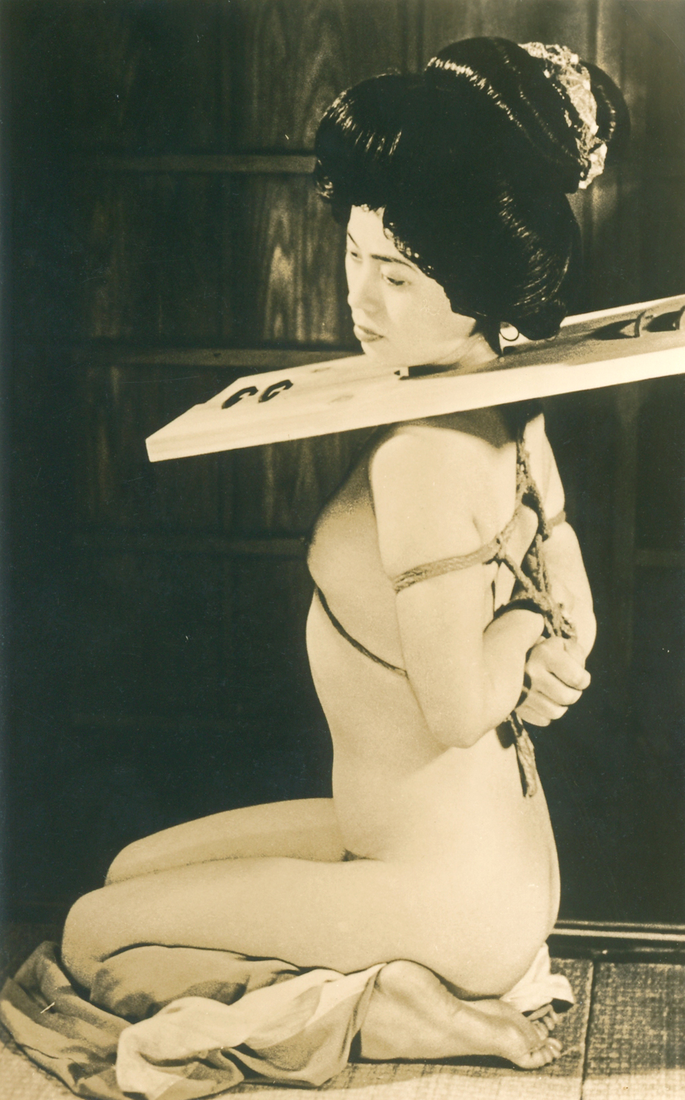 A photo from magazine Yomikiri Romance, dated January 1953, supervised by Seiu Ito.